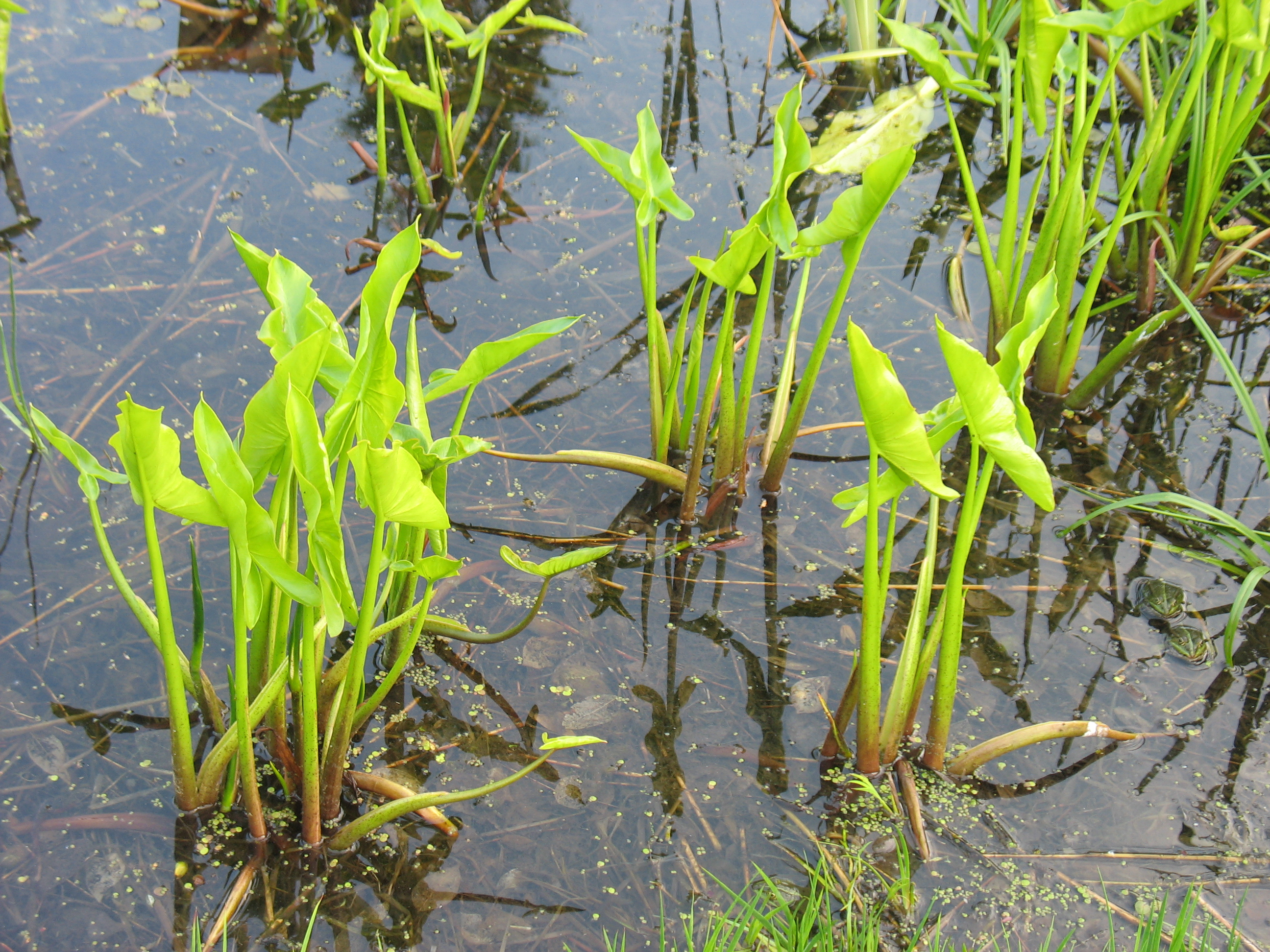 Peltandra virginica at the botanic garden in Göttingen